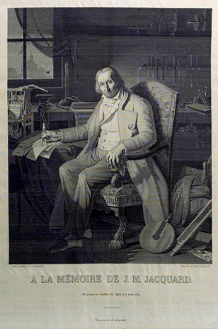 Portrait of Joseph Marie Jacquard (1752-1834)